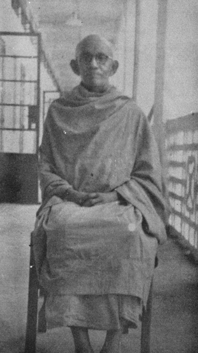 Balangoda Ananda Maitreya Thero, during his stay in Burma for the 6th buddhist council in Rangoon.